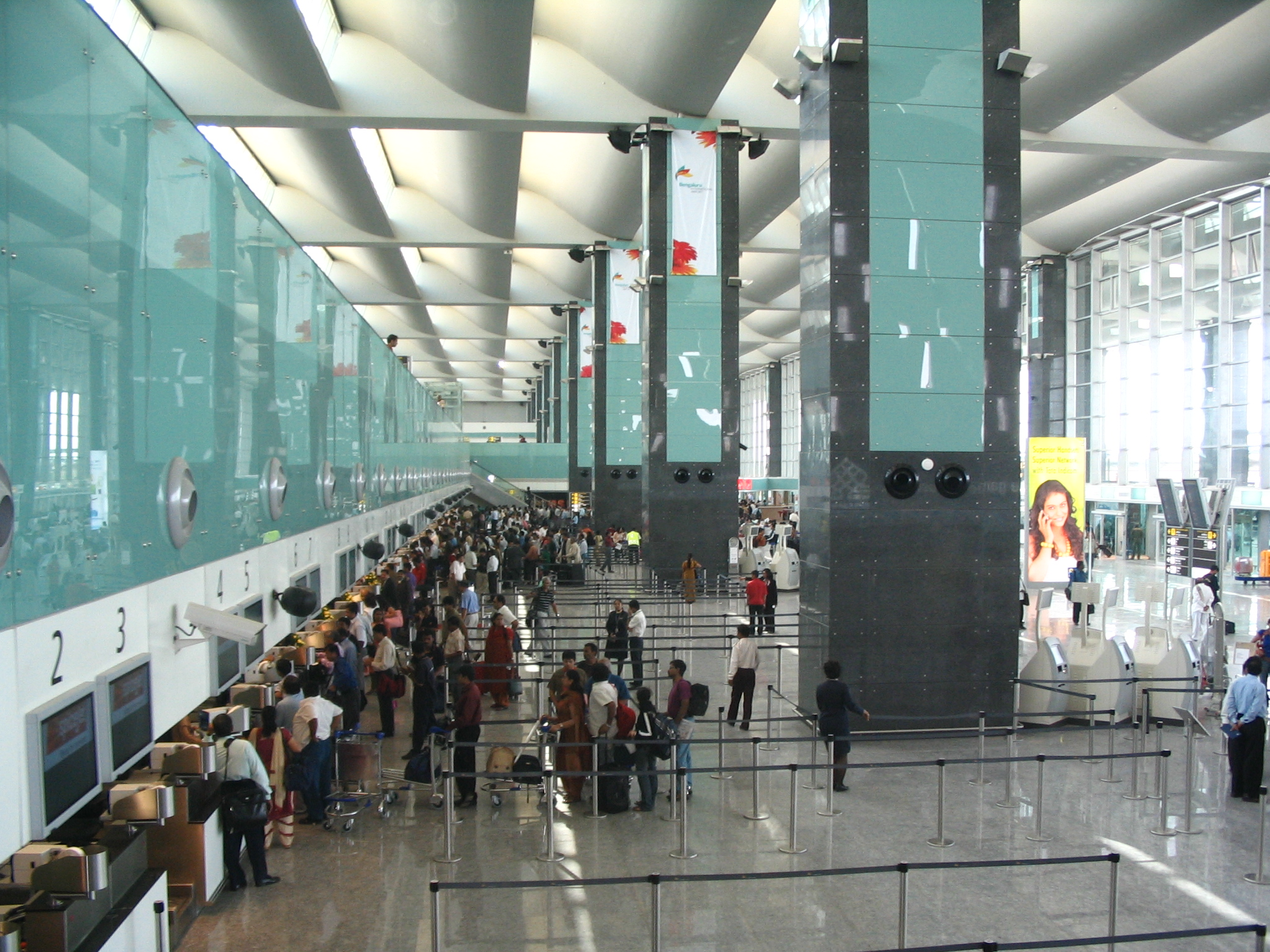 Check-in counters at Bengaluru International Airport.